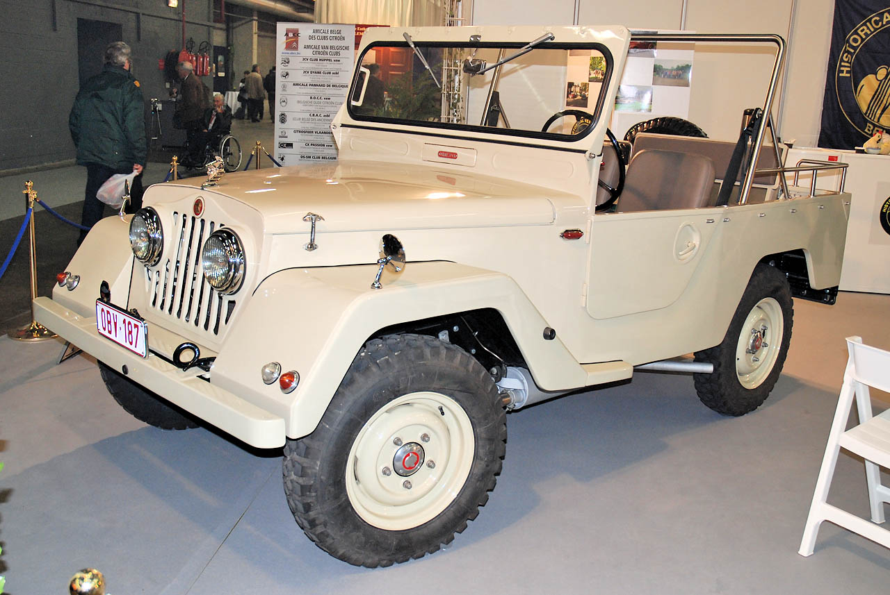 prototype civilian Jeep model powered by a Continental engine, made in Belgium by Minerva Motors SA; front left-side view